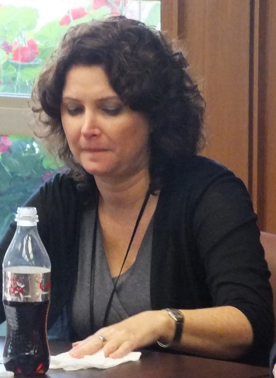 Michal Rozin MK.